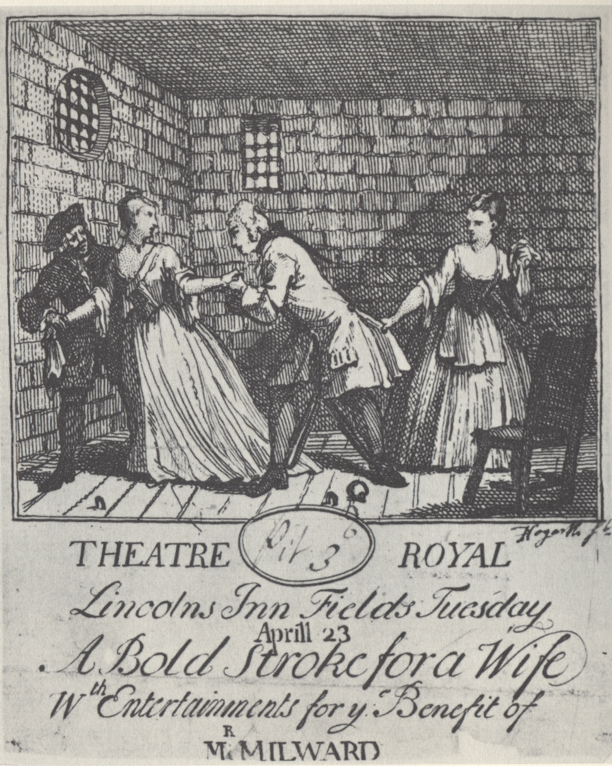 William Hogarth - Benefit ticket (Mr. Milward); A Bold Stroke for a Wife by Susanna Centlivre